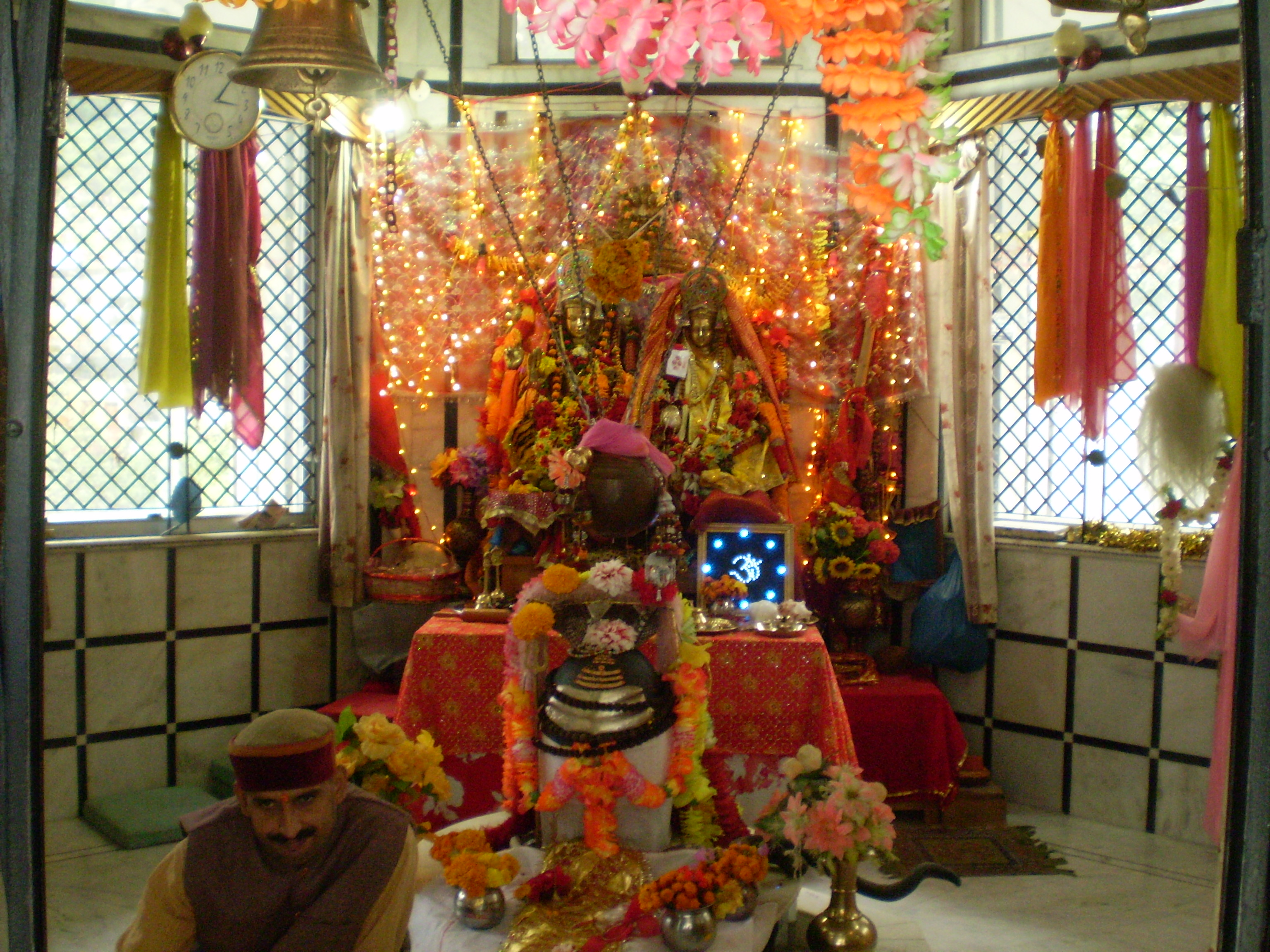 _SHIVA-TAMPLE MANIKARAN